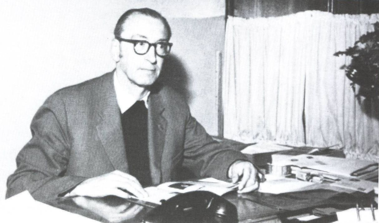 Erkki Ainamo finnish text writer